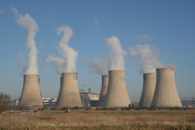 Skywriting On a virtually windless day the plumes of vapour from the cooling towers of Ratcliffe Power Station create unusual shapes against the sky.